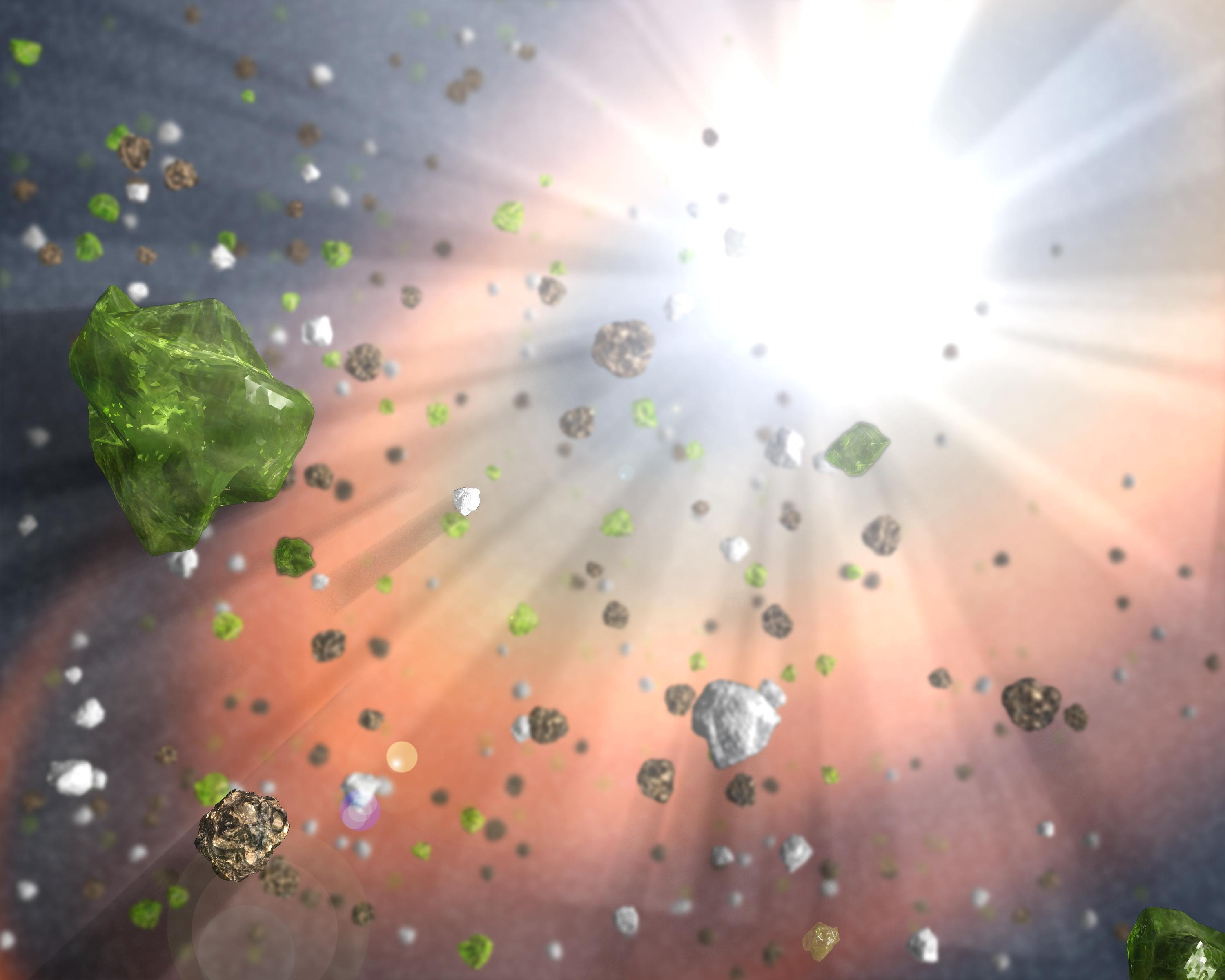 PIA10019: Dust in the Quasar Wind (Artist Concept). Dusty grains -- including tiny specks of the minerals found in the gemstones peridot, sapphires and rubies -- can be seen blowing in the winds of a quasar, or active black hole, in this artist's concept. The quasar is at the center of a distant galaxy.